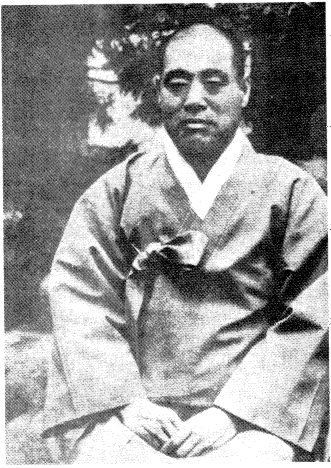 Choe Nam-seon(1890-1957historian, pioneering poet and publisher, and a leading member of the Korean independence movement.